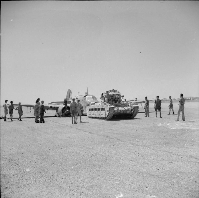 The British Army on Malta 1942 A Matilda tank being used to tow a Beaufort torpedo bomber which made a belly-landing at Luqa airfield after being damaged during an attack on the Italian Fleet, 16 July 1942.